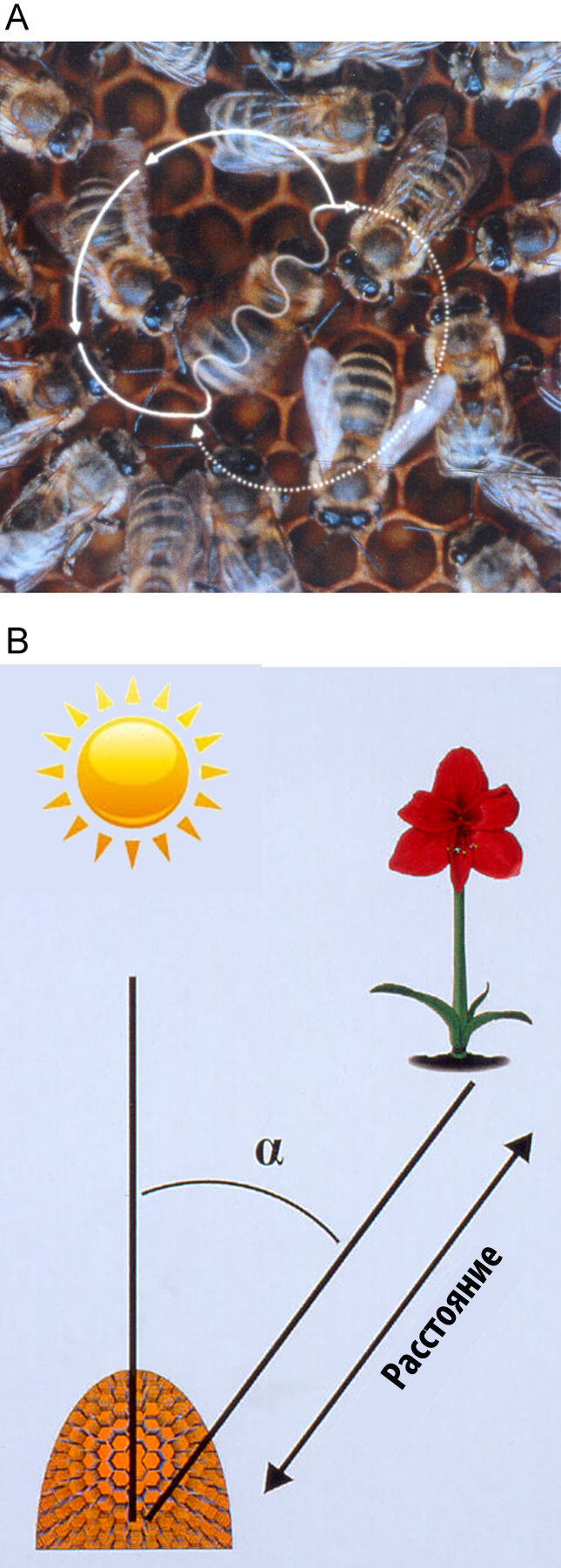 Figure-Eight-Shaped Waggle Dance of the Honeybee (Apis mellifera). A waggle run oriented 45° to the right of ‘up’ on the vertical comb (A) indicates a food source 45° to the right of the direction of the sun outside the hive (B). The abdomen of the dancer appears blurred because of the rapid motion from side to side.